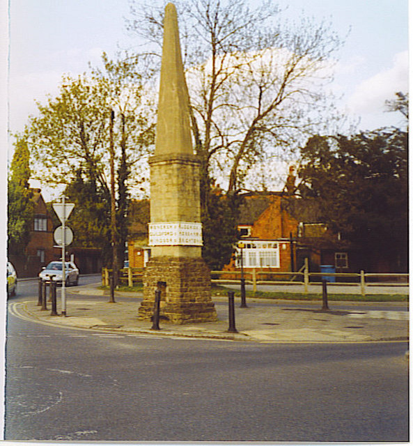 Obelisk in Cranleigh. This distinctive stone obelisk stands at the road fork at Cranleigh's east end. It carries old road signs pointing the way to such far apart places as Brighton and Windsor.